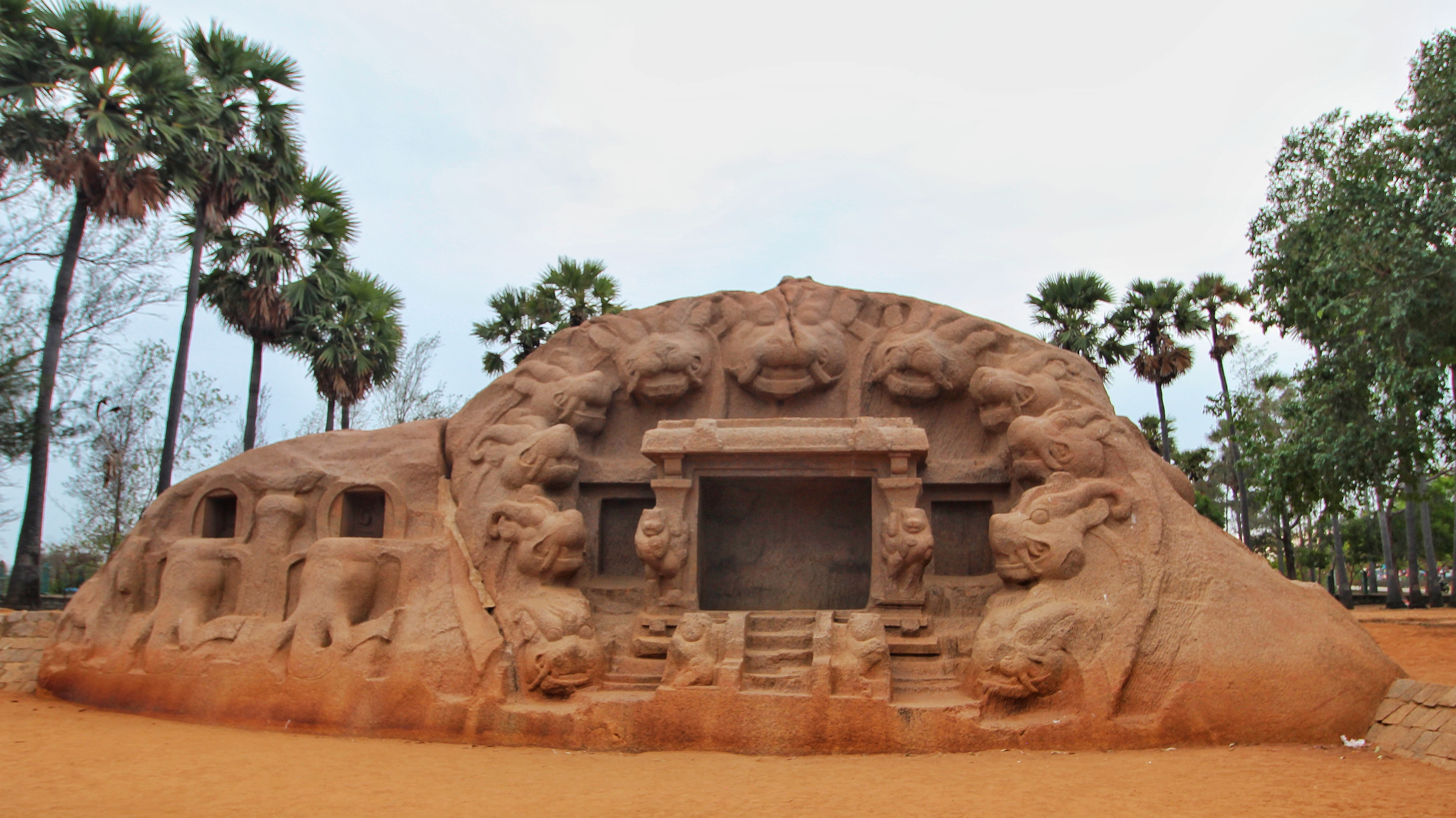 Tiger Cave monument in Mamallapuram